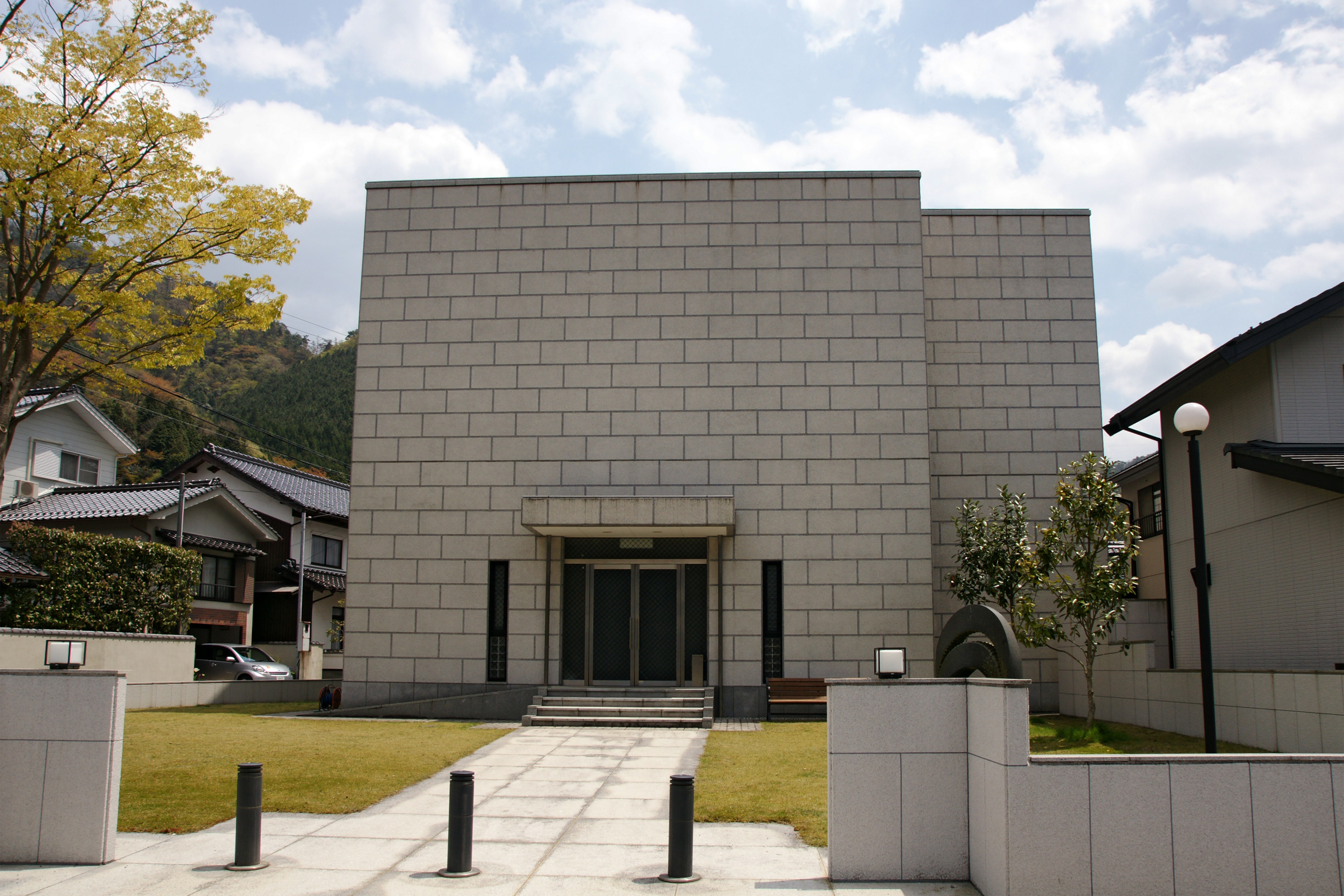 Tanyo Shinkin bank Hall (Tanyo Museum) in Kuchiganaya, Ikuno, Asago, Hyogo prefecture, Japan.